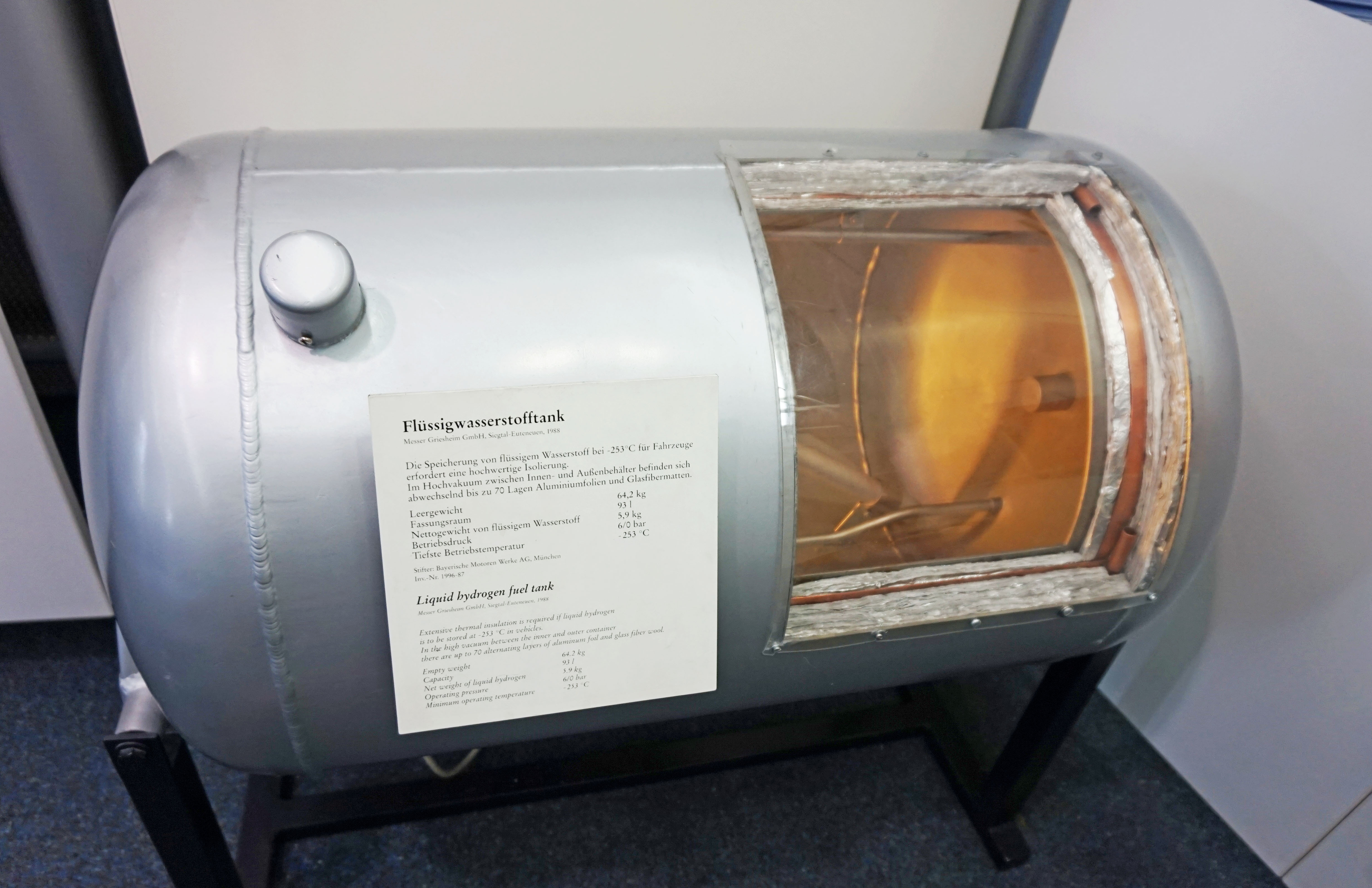 Liquid hydrogen fuel tank with capacity 93 litres and minimum operating temperature -253 °C. Made by Messer Griesheim GmbH, Siegtal-Euteneuen, 1988. The container is insulated. There is supposed to be vacuum between inner and outer countainer. Deutsches Museum in Munich, Germany.